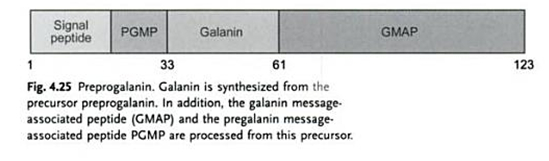 preprogalanin